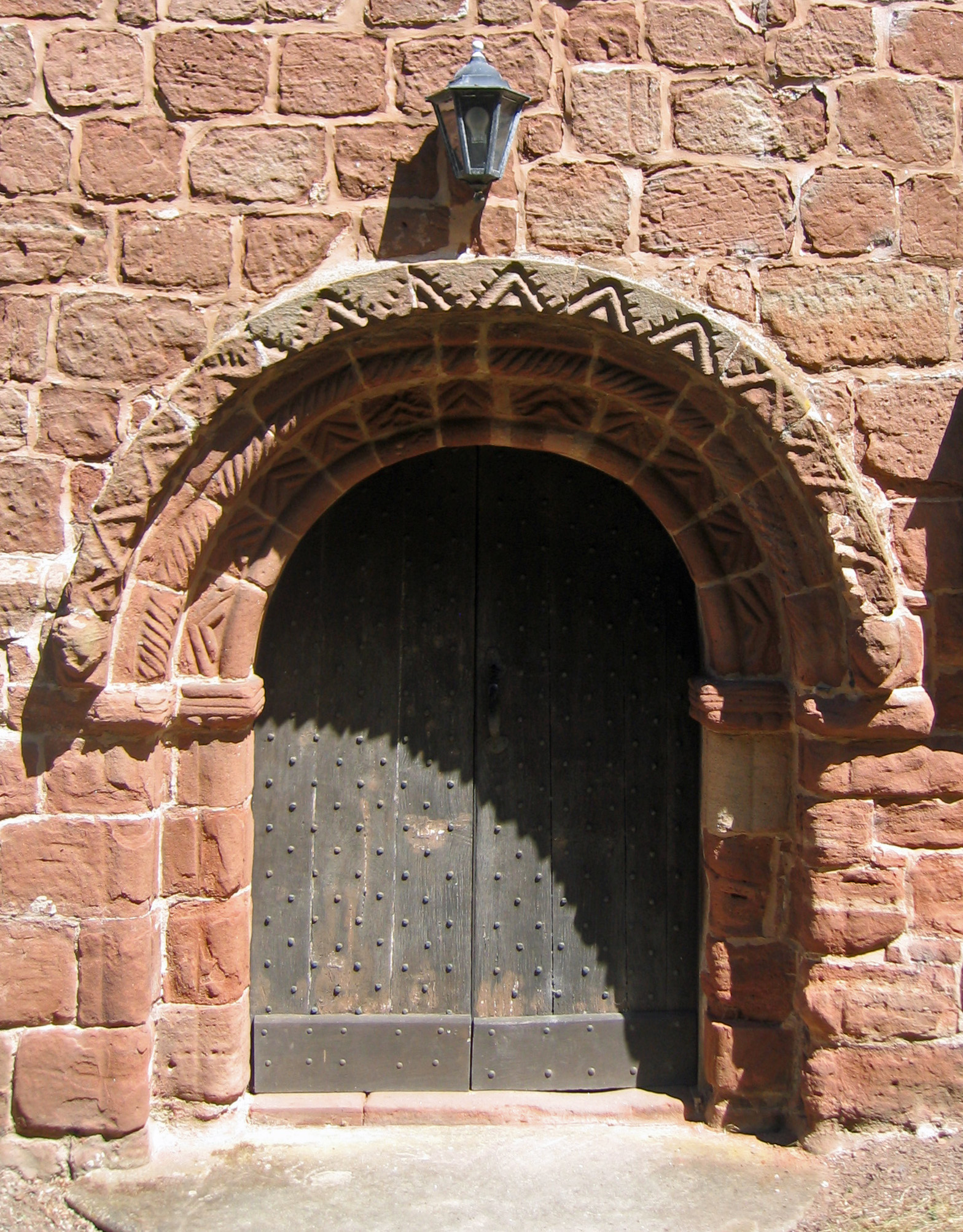 12th-century Norman doorway of St Edith's parish church, Shocklach, Cheshire